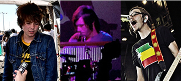 Chris Drew Warped Tour 2010.